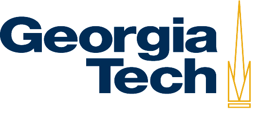 Shortened logo of the Georgia Institute of Technology, also known as Georgia Tech